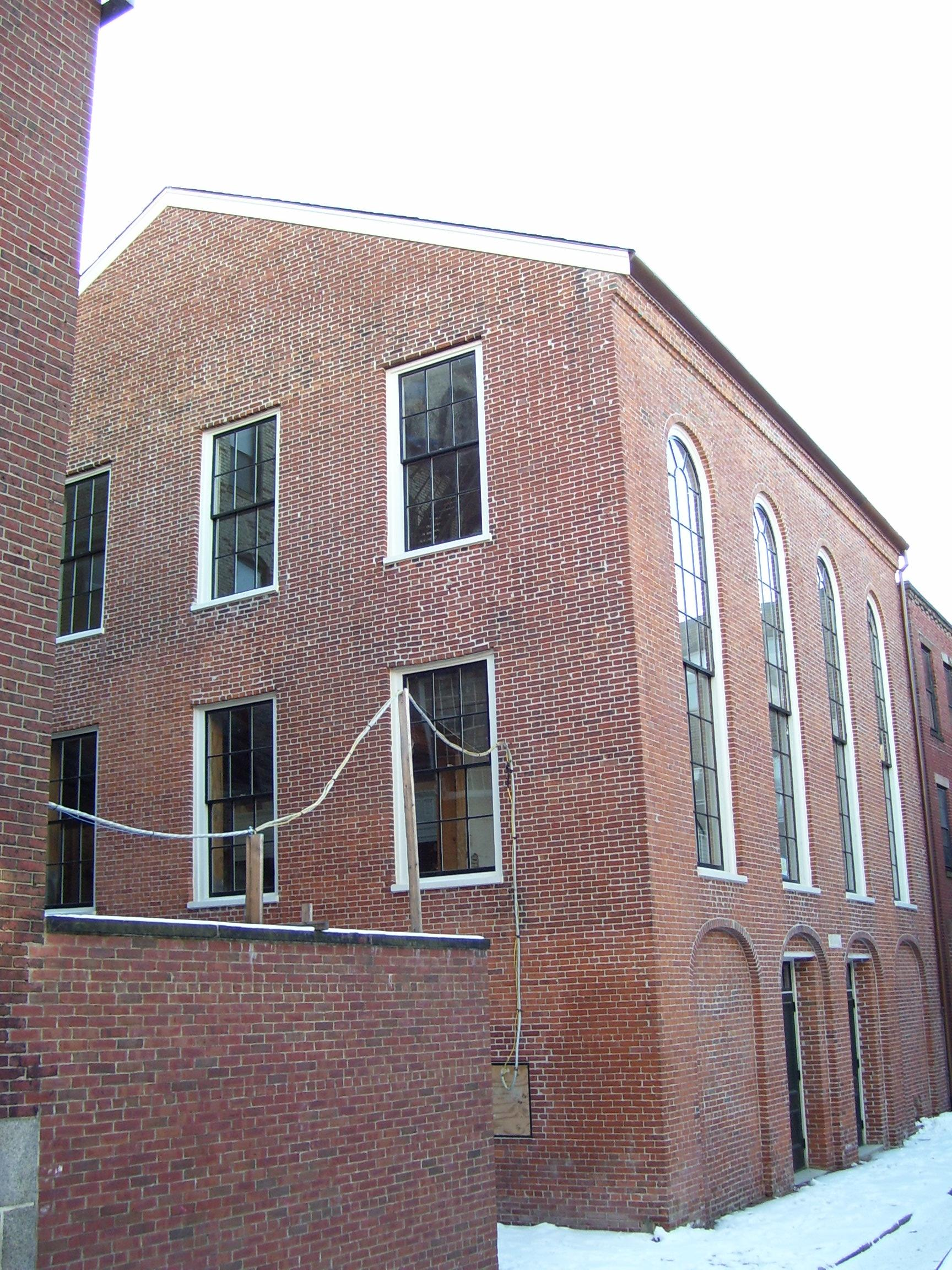 I took this picture of the African Meeting House on Joy Street in Boston on January 28, 2008.